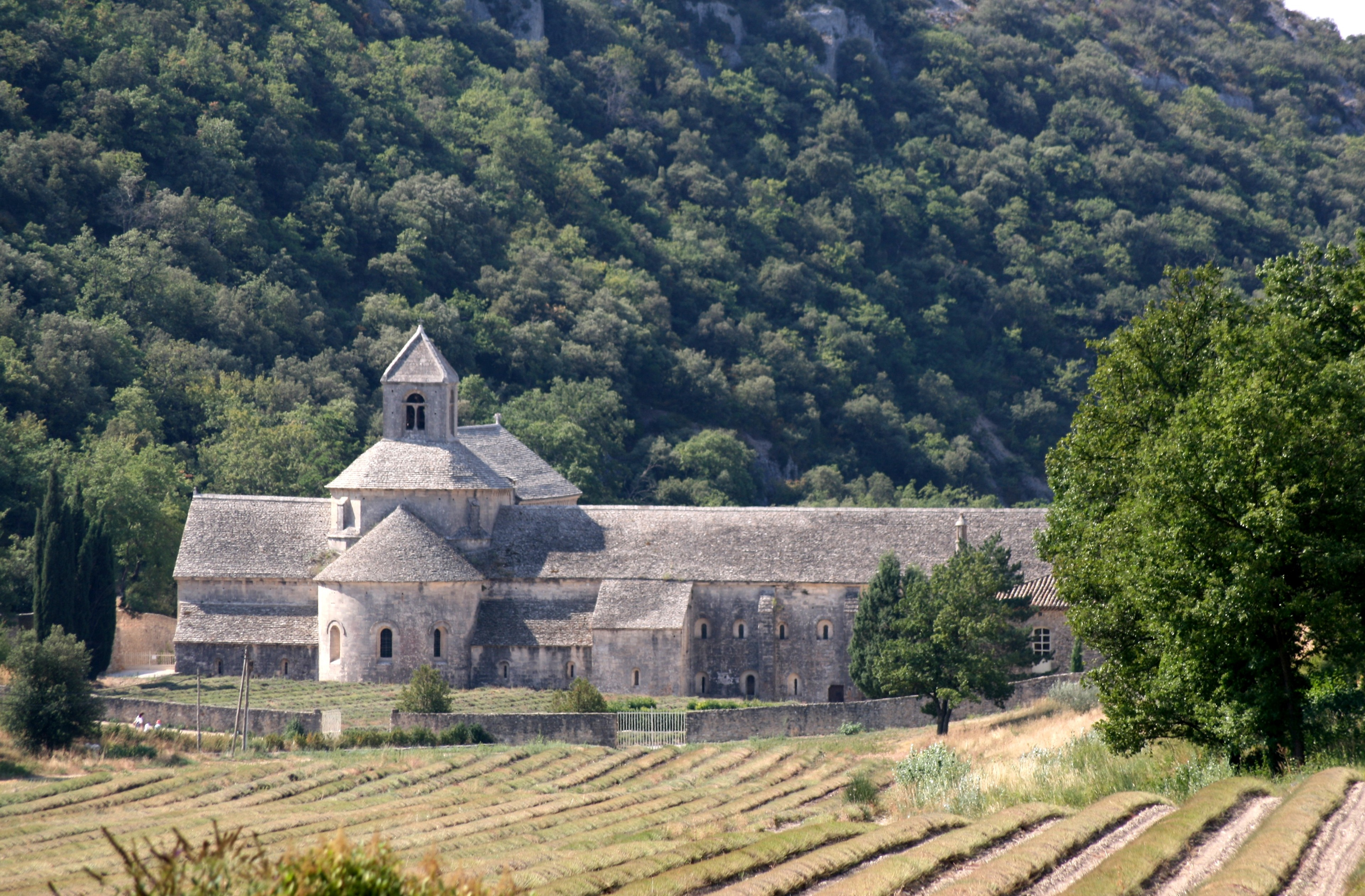 Abbaye de Sénanque, France